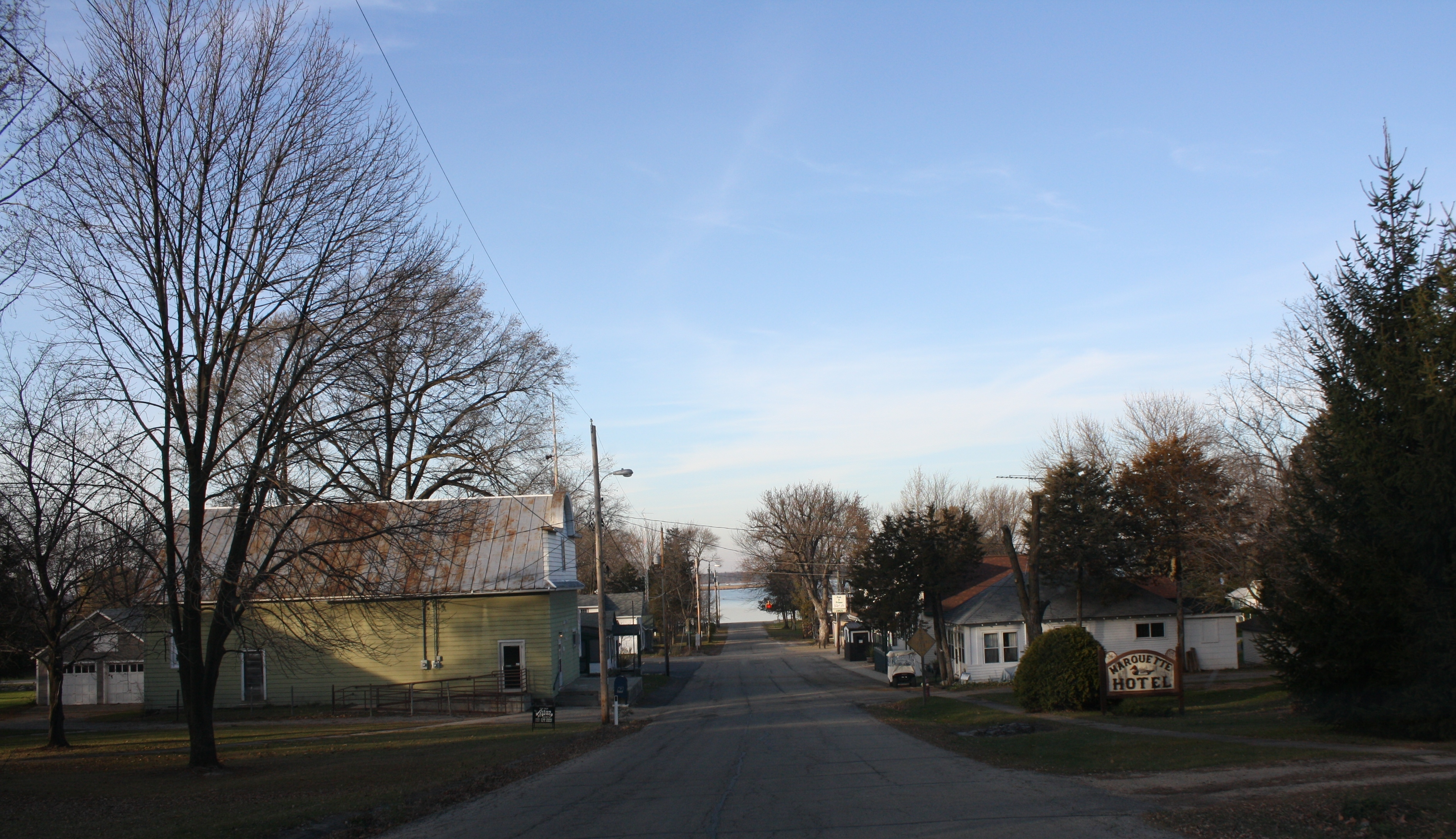 Looking north in downtown Marquette, Wisconsin. Puckaway Lake is visible in the background.